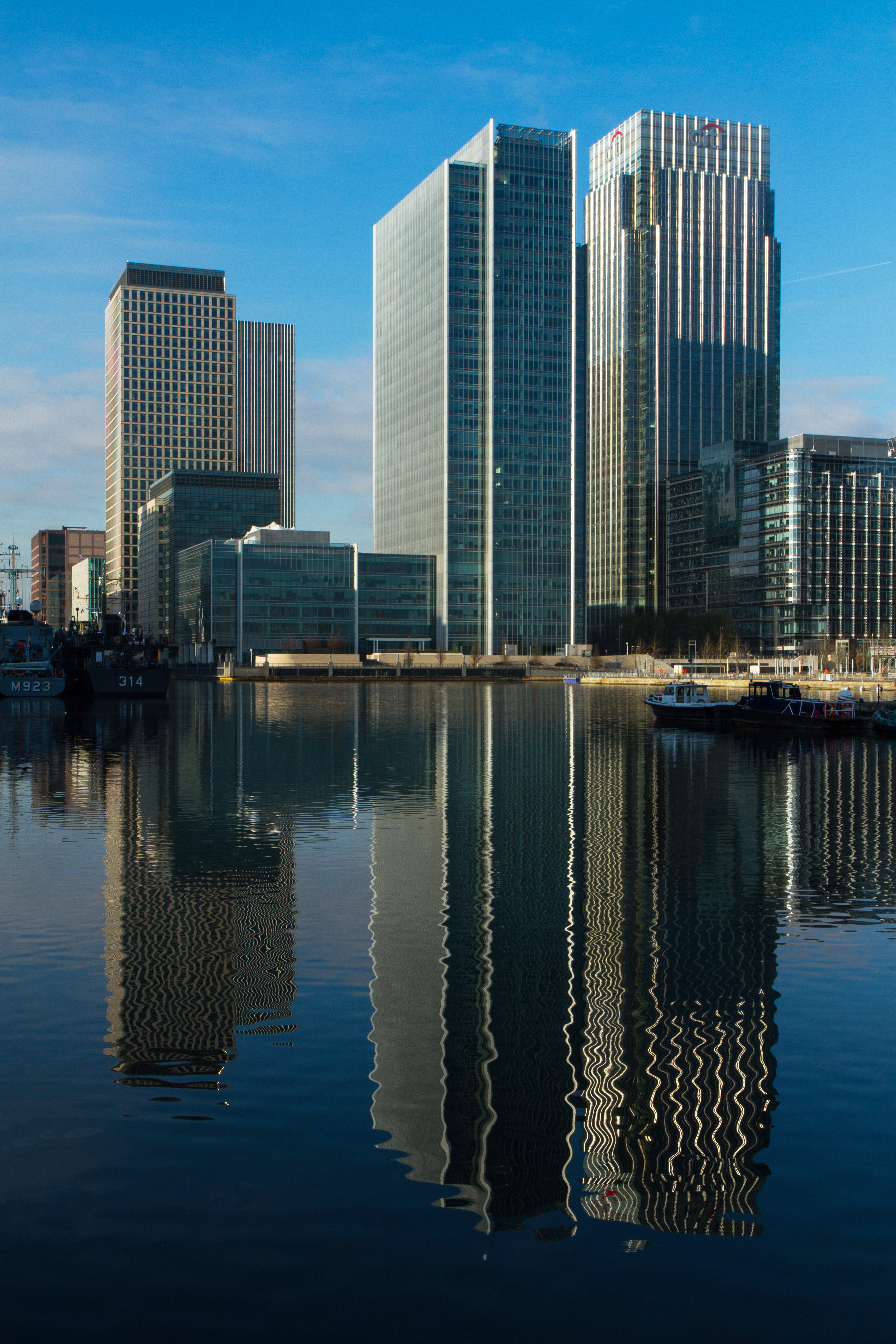 Canary Wharf